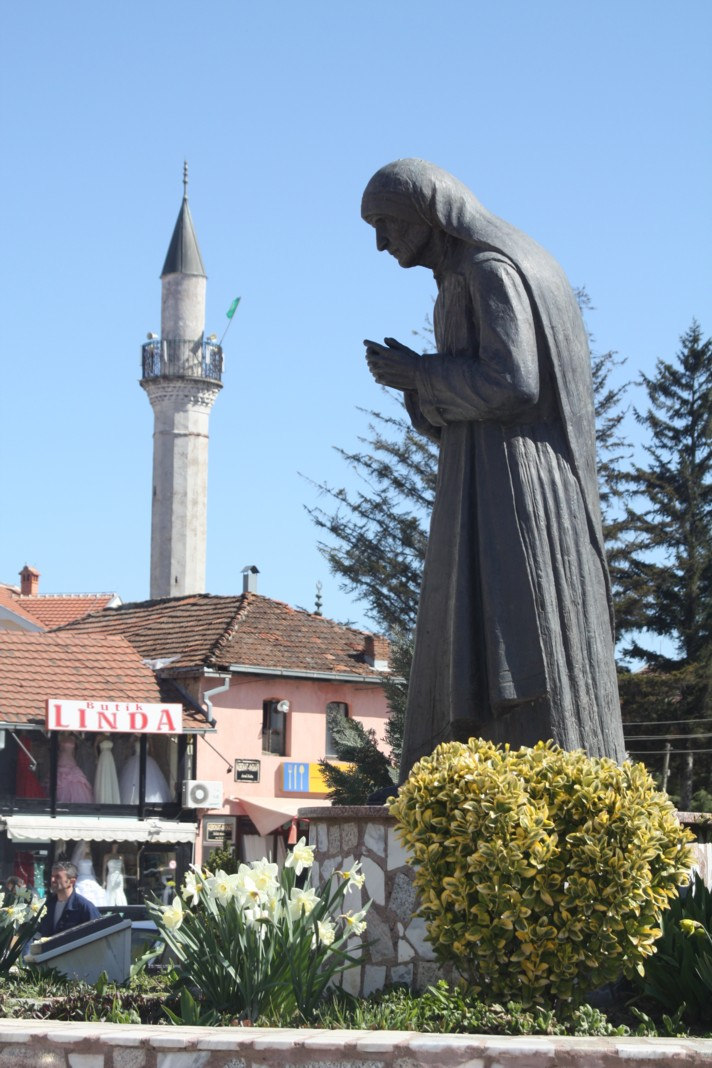 Mother Teresa statue and a mosque, Struga